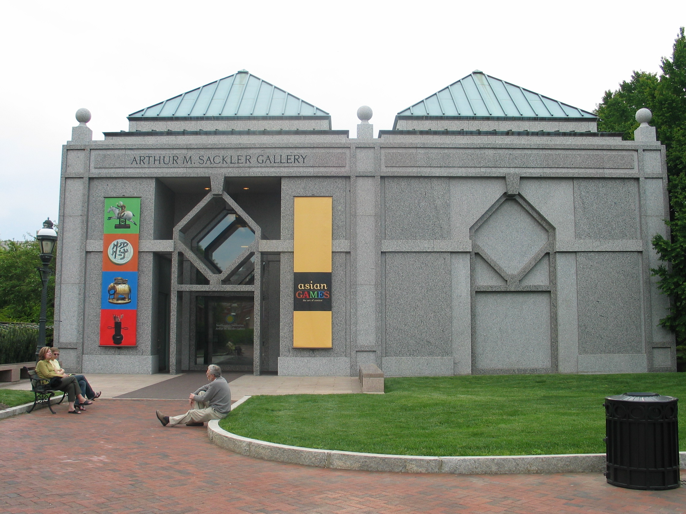 The Sackler Gallery of the Smithsonian in D.C. Taken by User:Isomorphic, May 7, 2005, during the Wikipedia field trip to D.C. Licensed under the GFDL and whatever Creative Commons license you like.